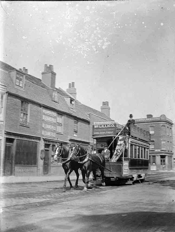 Horsecar Number 31 on a Thornton Heath service - photo undated, but probably taken in the early to mid 1890s under the ownership of the second Croydon Tramways Company.